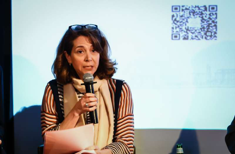 The FT held the Great Debates in Shanghai and Hong Kong, with sold-out events in both cities. Chaired by Asia editor Jamil Anderlini, the panel included Roula Khalaf, JohnThornhill, Victor Mallet, Demetri Sevastopulo, and Lucy Hornby from the FT, and FTChinese editor-in-chief, Wang Feng. Participants were split into two teams to argue whether or not western democracy has been discredited. The session in China at M on the Bund was part of the Shanghai Literary Festival, which included in the line-up renowned authors such as Amy Tan. The event The China Club in Hong Kong welcomed a number of VIP guests, including Anson Chan, former Chief Secretary of Hong Kong, and Sir David Tang.